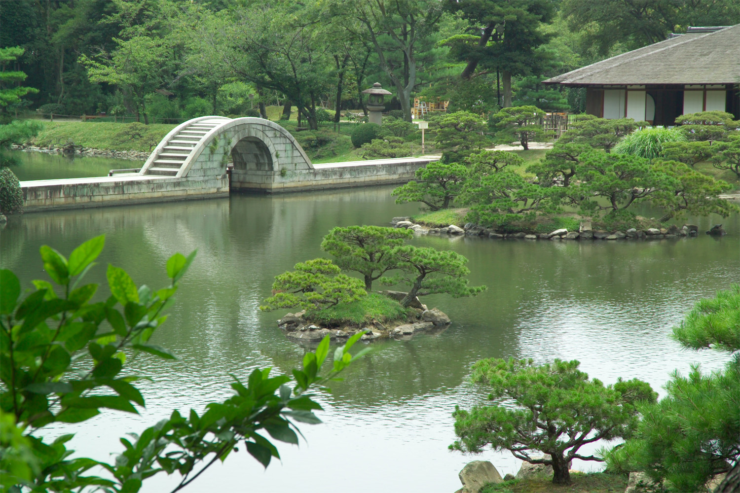 Shukkeien, a garden near Hiroshima Castle, Hiroshima, Japan. I took this photo and contribute my rights in the file to the public domain; people and organizations retain rights to images in it.